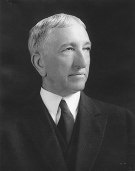 James Marion Baker, Secretary of the US Senate and US ambassador to Thailand